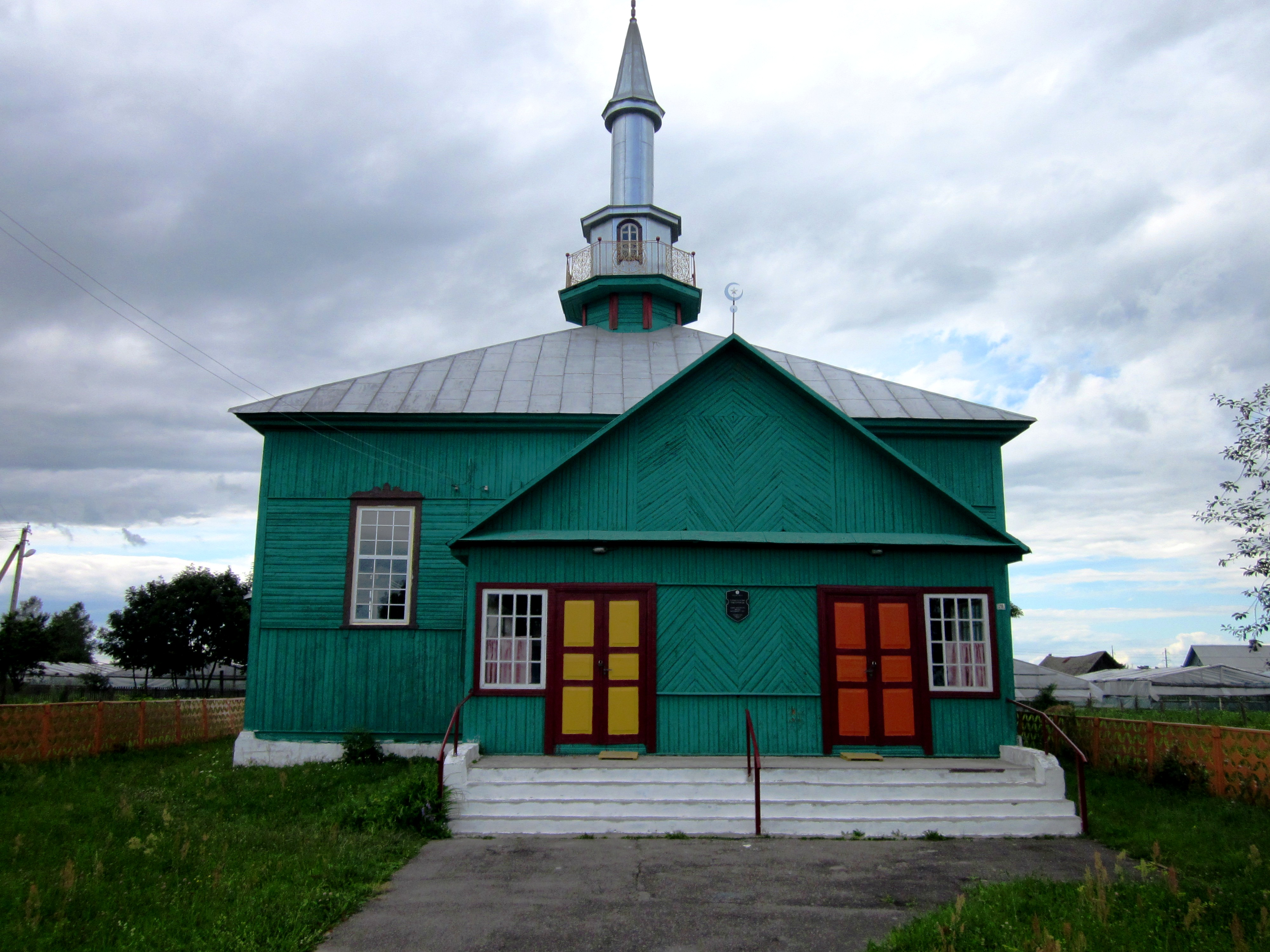 Беларуская (тарашкевіца): Мячэт. г. Іўе This is a photo of Belarusian heritage monument. Reference number: 413Г000288 ( WLM)